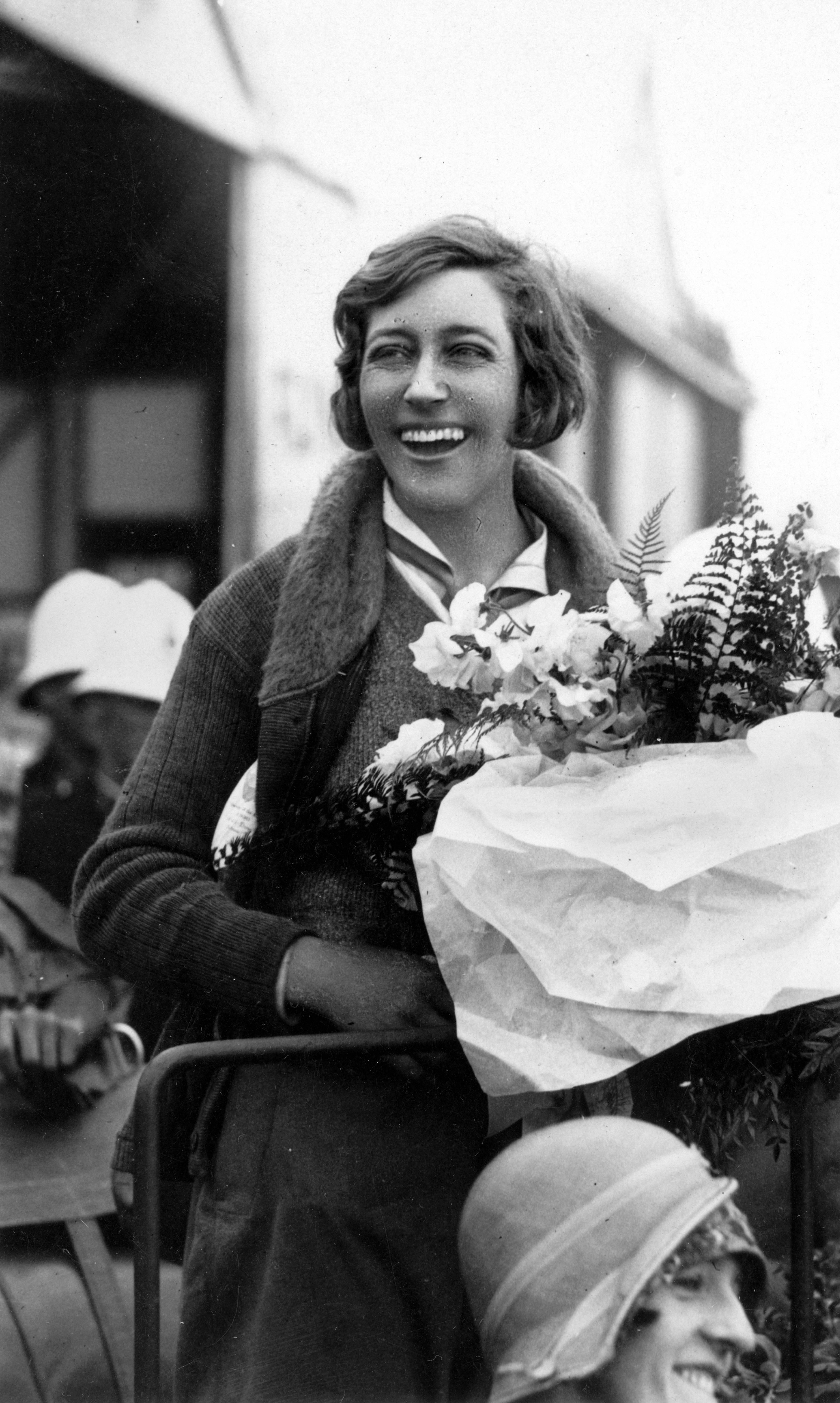 Photographer: F. W. Thiel. Location: Brisbane, Australia. Description: In May 1930, British aviator Amy Johnson landed in Darwin, later Brisbane, after having flown nearly 14,000 kilometres in just under 20 days. Johnson was attempting to beat Australian Aviator, Bert Hinkler's record of London to Australia in 15 ½ days. View this image at the State Library of Queensland: Information about State Library of Queensland’s collection: You are free to use this image without permission. Please attribute State Library of Queensland.